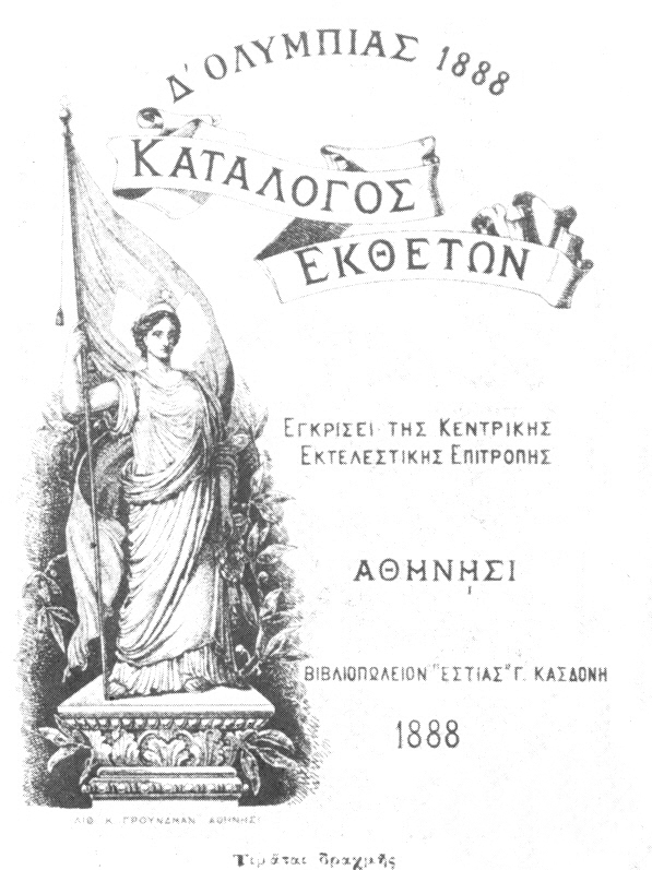 Cover of the Olympia Artistic Exhibition, Athens 1888